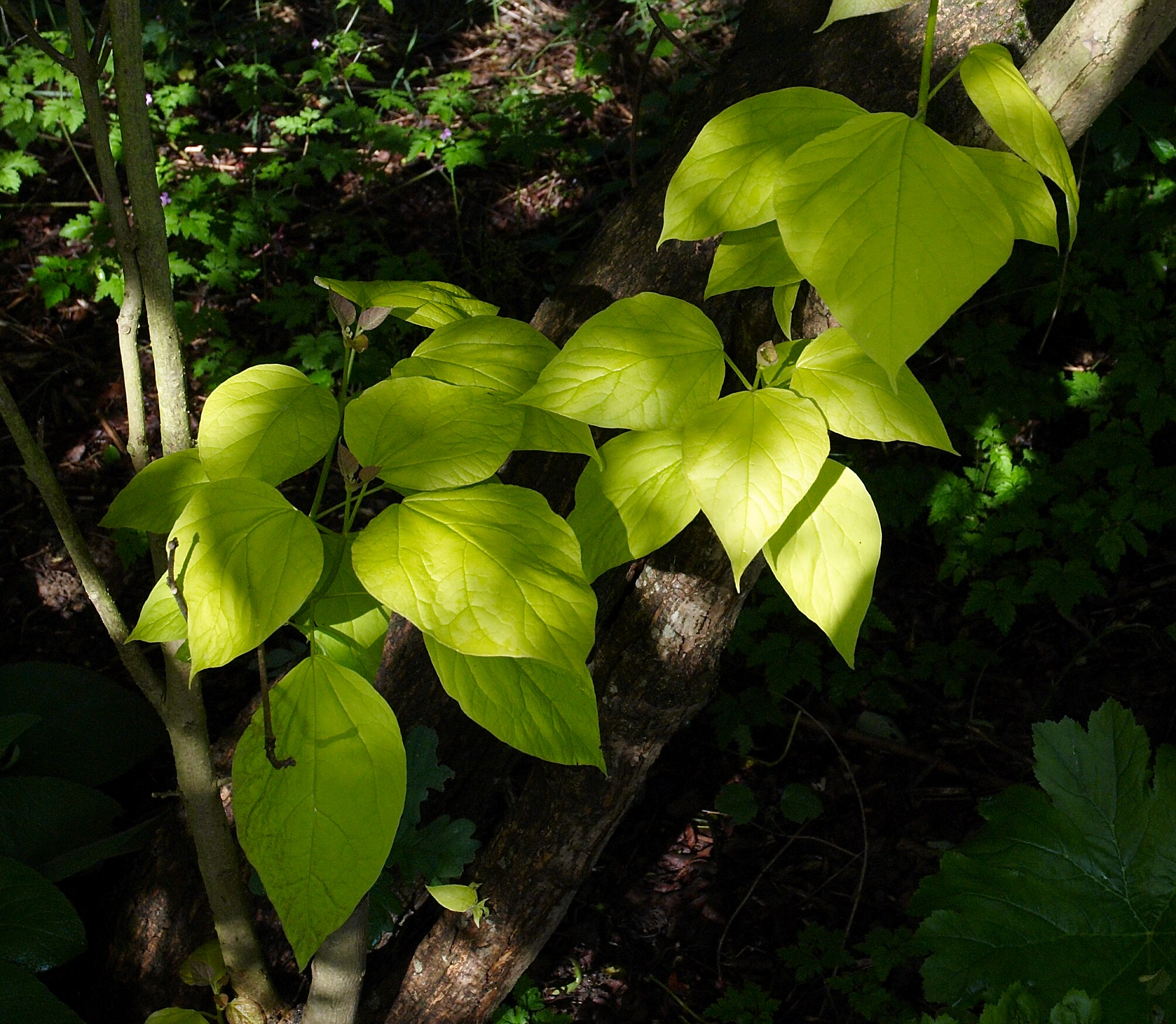 Southern Catalpa